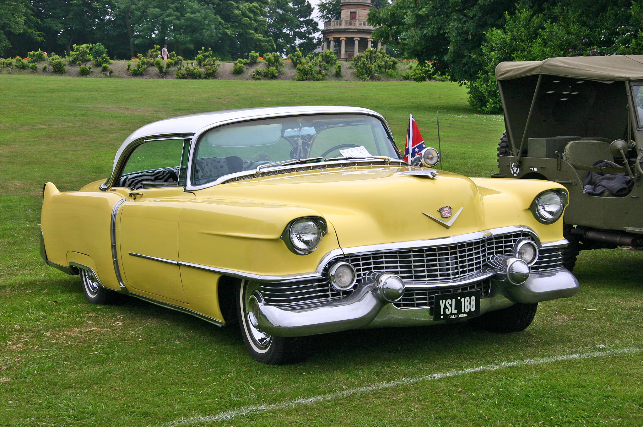 Cadillac Coupe de Ville 1954. The Coupe de Ville began in 1949 as a premium pillarless coupe for the Series 62 Cadillac line. In 1954 the second version (shown here) was launched.